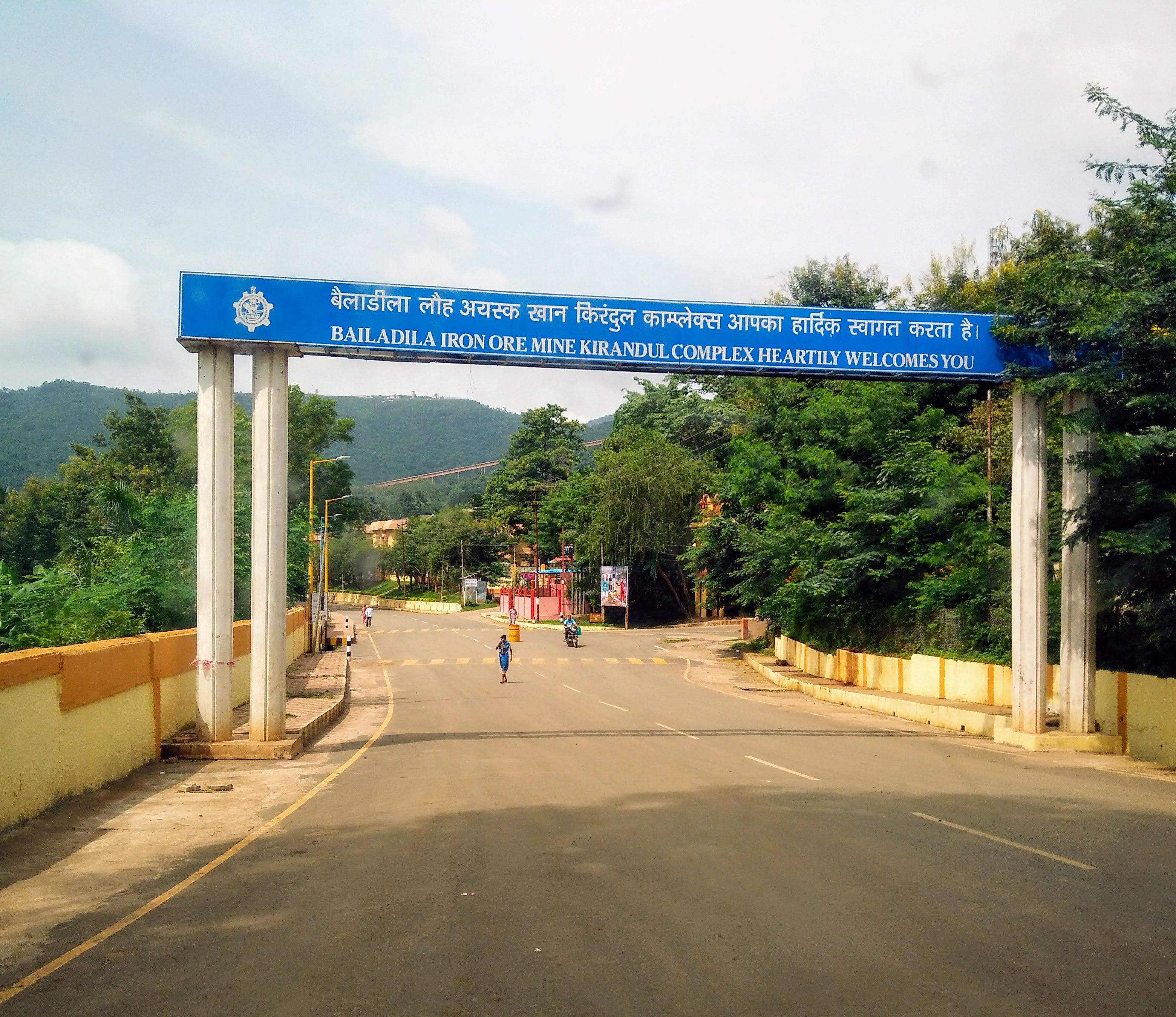 Kirandul main road near BIOP school, Kirandul.